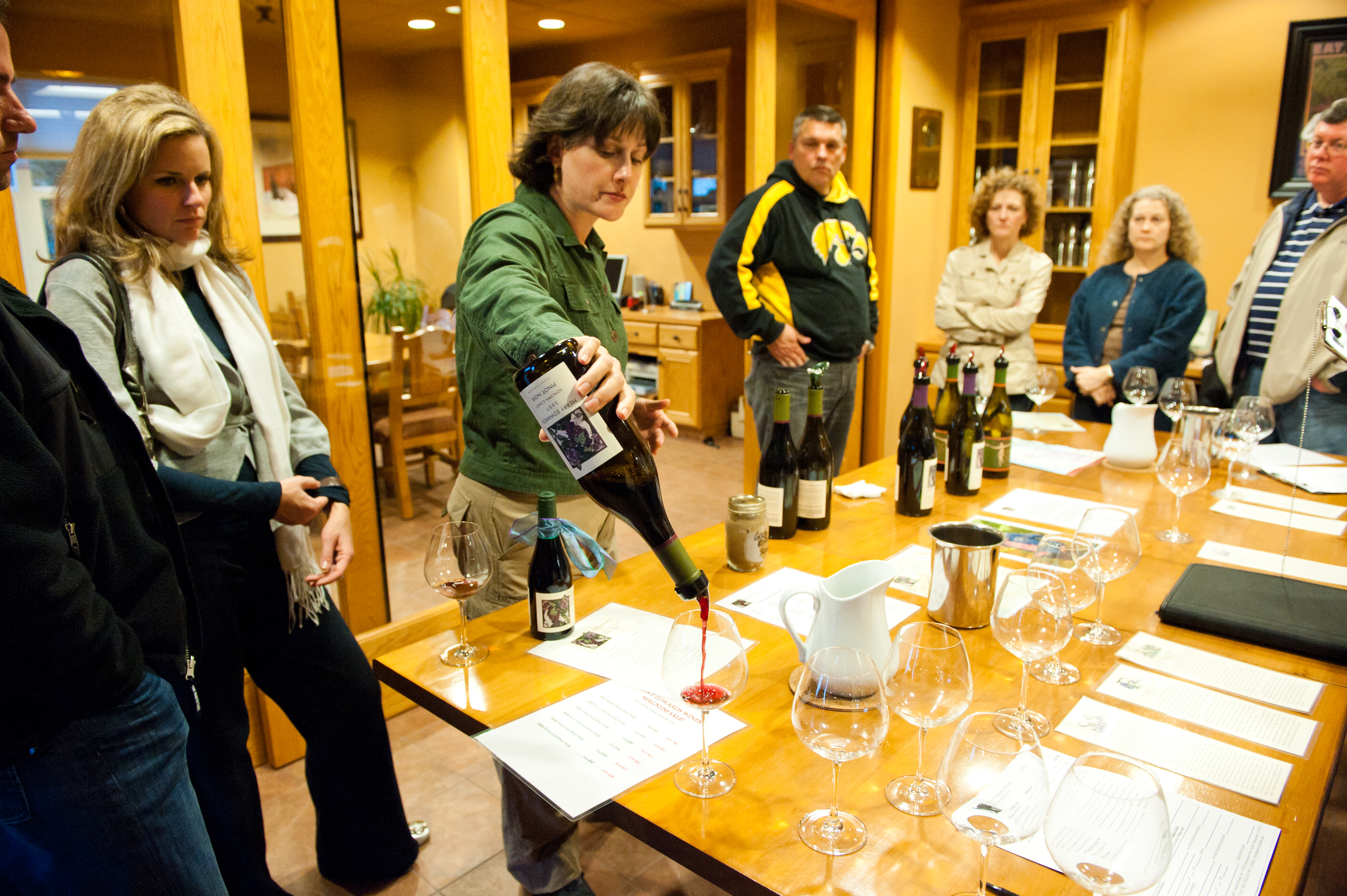 Wine tasting at Merry Edwards Winery in California